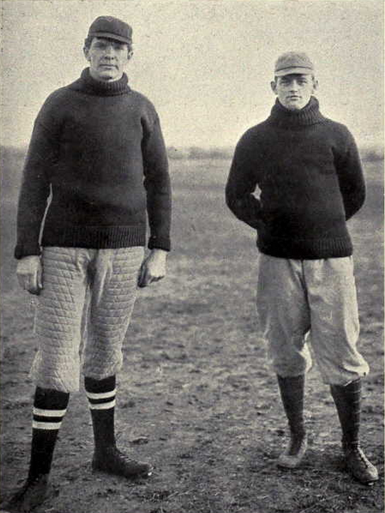 Photograph of Coach Roach and Captain Utley (Jerome Utley)